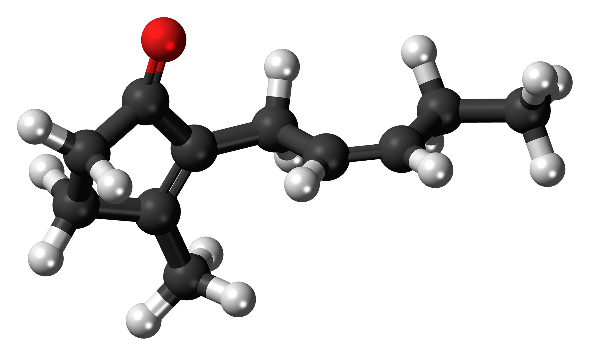 Ball-and-stick model of the jasmone molecule, a ketone extracted from jasmine flowers. Color code: Carbon, C: black Hydrogen, H: white Oxygen, O: red